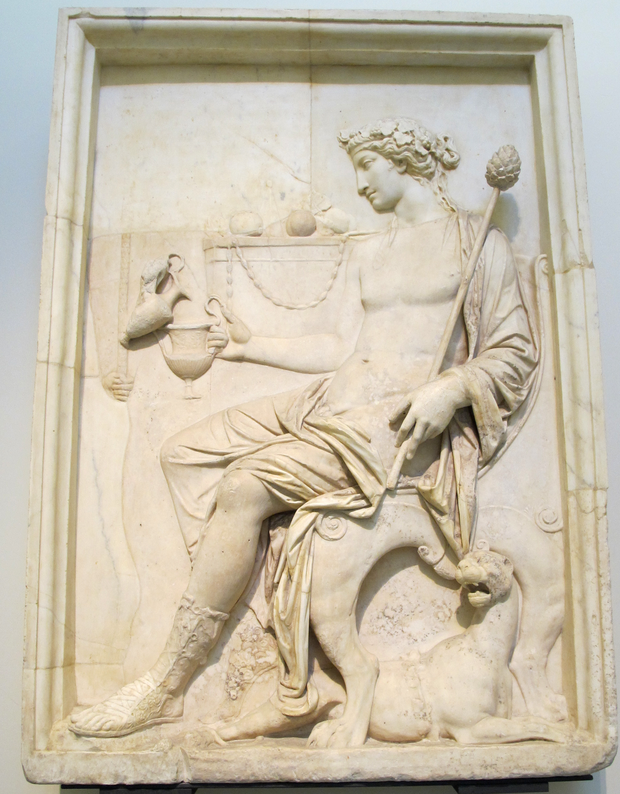 Ancient Roman reliefs in the Museo Archeologico (Naples)